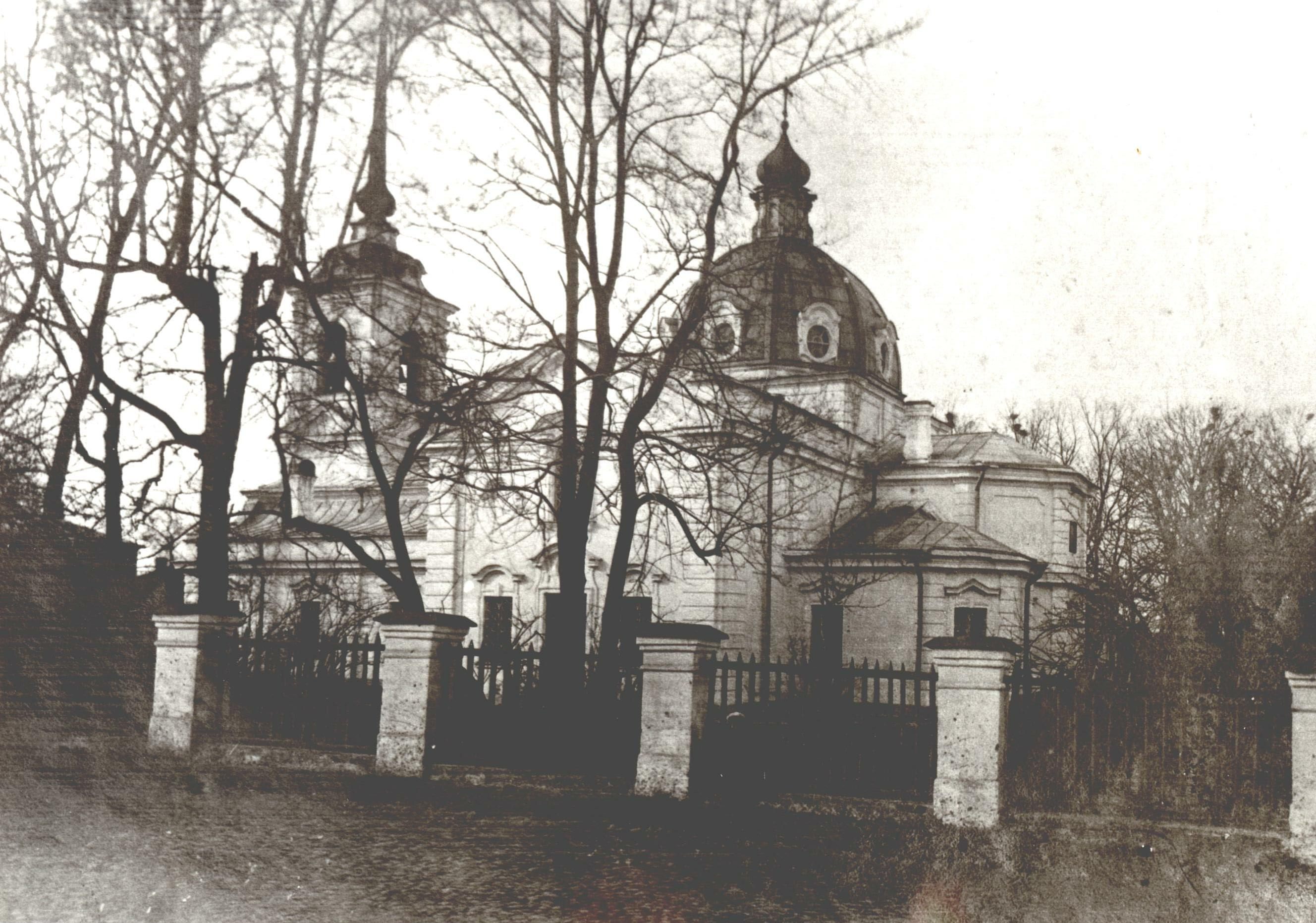 Krasnoye Selo (Russia)